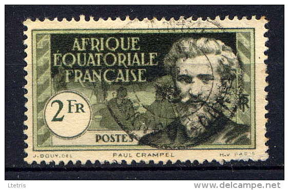 Timbre à l'effigie de Paul Crampel